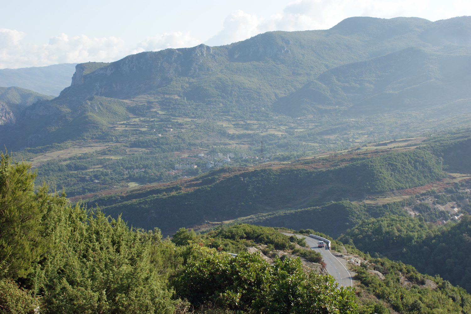 The town of Krabba in Albania on the North side of the Krabba pass between Tirana and Elbasan